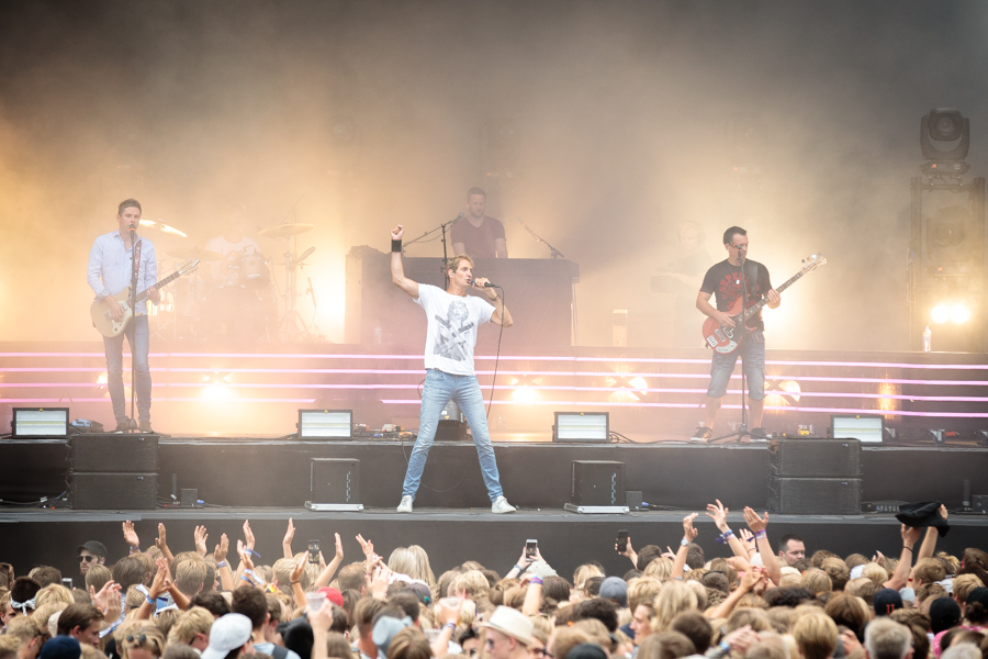 Postgirobygget at Stavernfestivalen. The concert was part of Stavernfestivalen and took place on 12. July 2018 in Stavern. Lineup: Arne Hurlen (guitar and vocal) Nicolai Hauan (bass guitar) Nils Petter Time (guitar) Øyvind Kolset (keyboard) Per Sarin Madsen (drums)